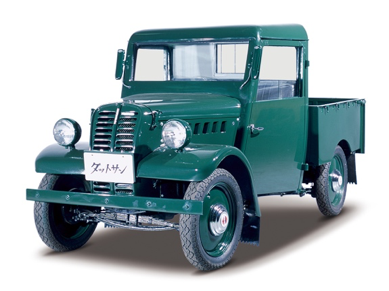 Datsun Truck